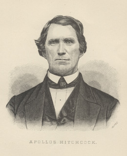 A drawing of Apollos Hitchcock, first settler in land of Cheektowaga, NY (land now part of Depew, NY)